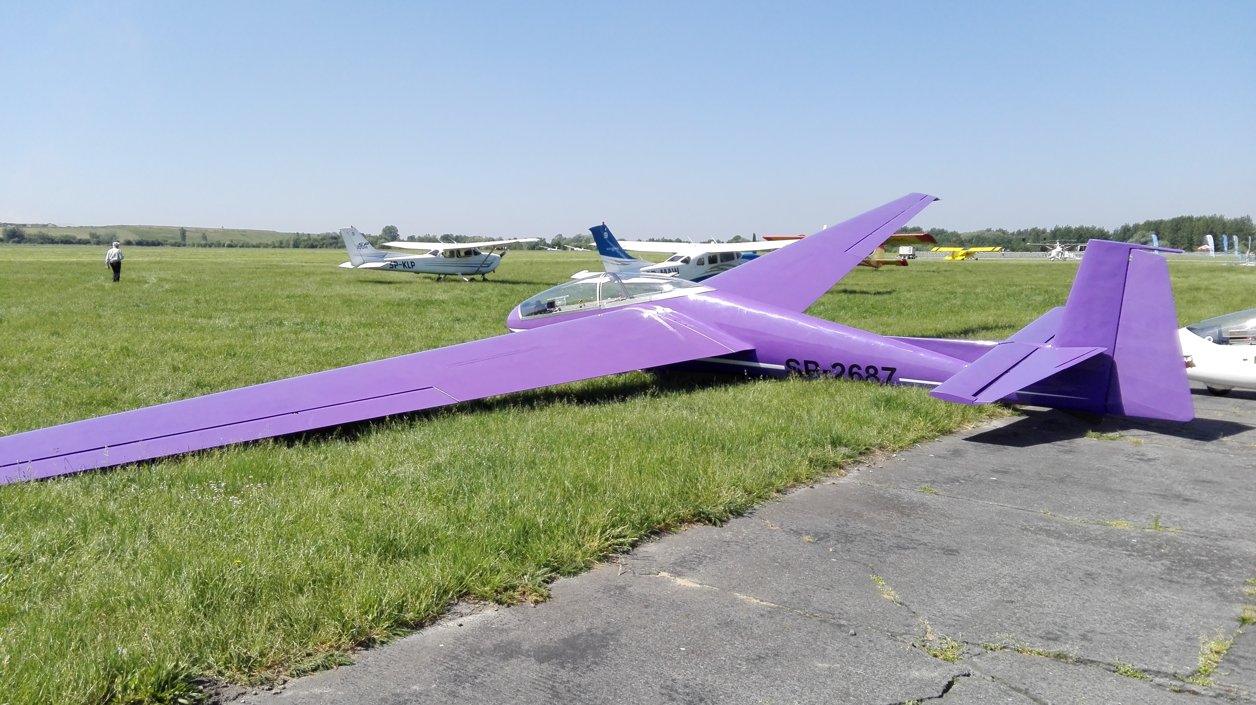 SZD-9 Bocian bis 1E